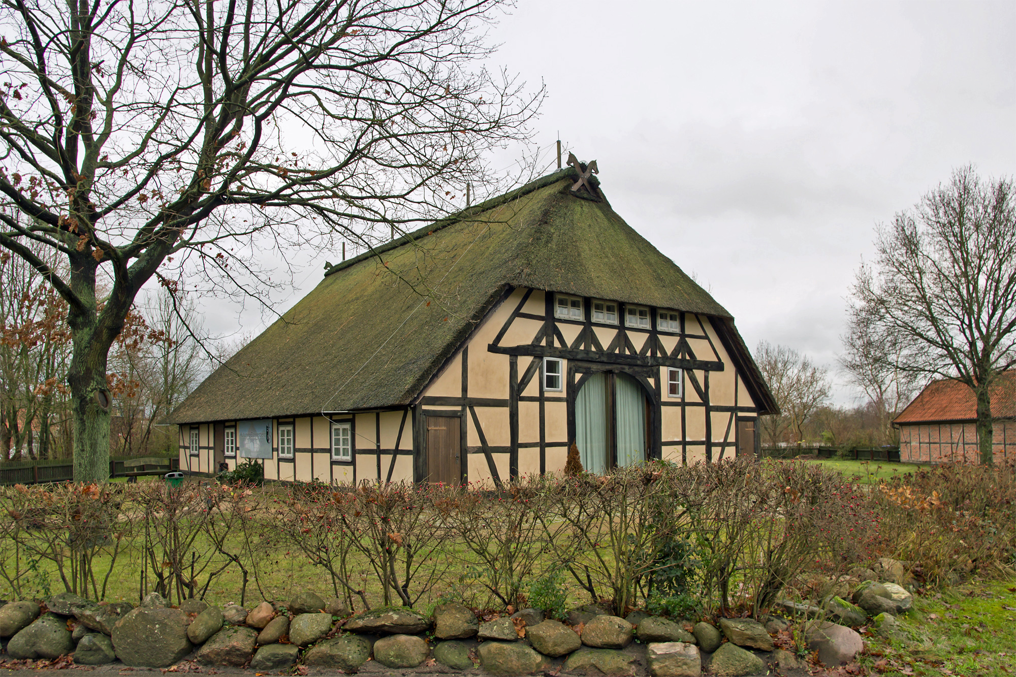 "Ohm's house" is a half-timbered house of 1656, and one of the oldest in the district Lüchow-Dannenberg. It used to stand in the village Langendorf, there was reduced in 1971 and rebuilt in Dannenberg (Elbe) in 1988. Here, the building is used for cultural events.